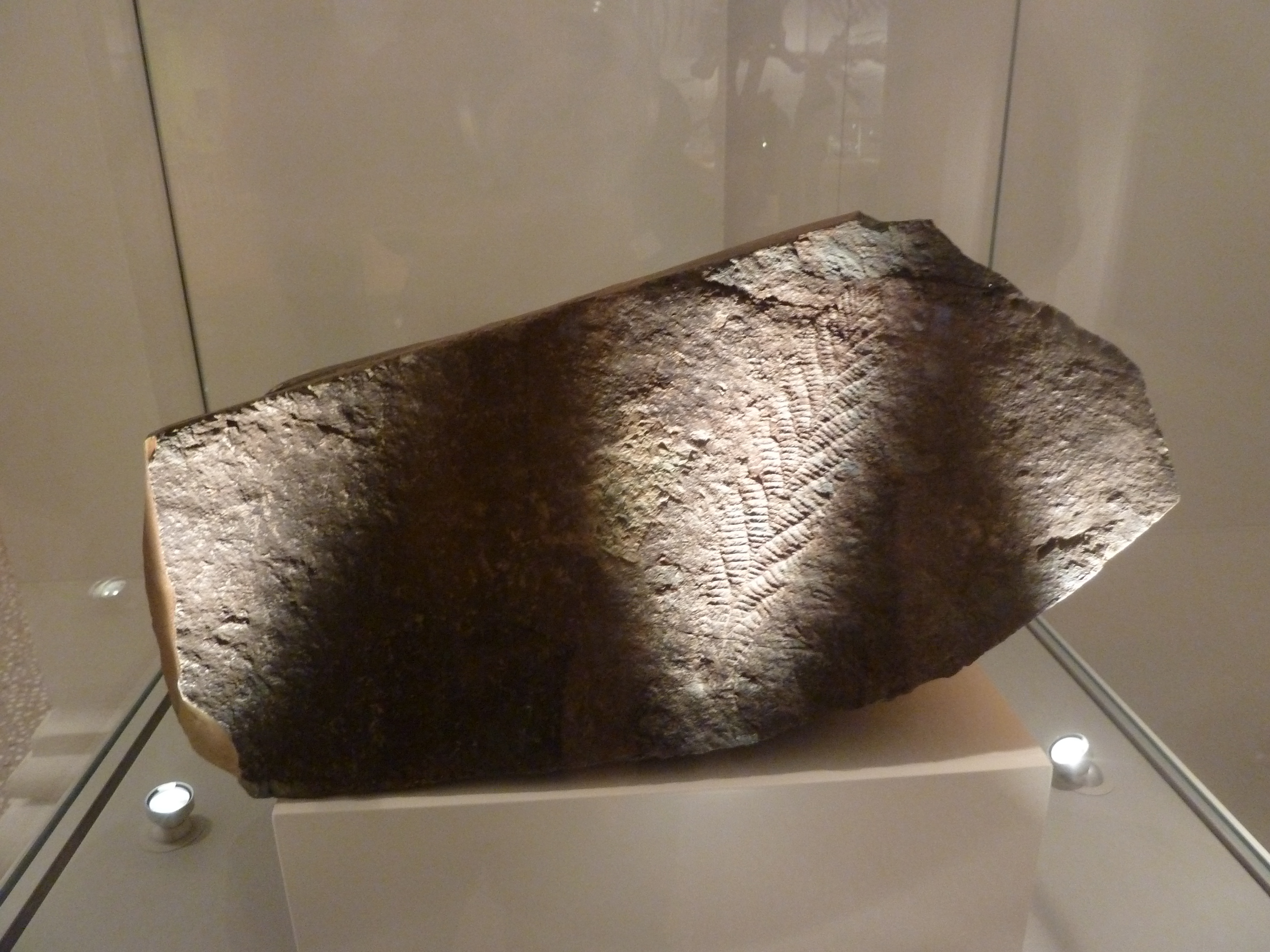 Pre-Cambrian Charnia masoni index fossil, New Walk Museum, Leicester.